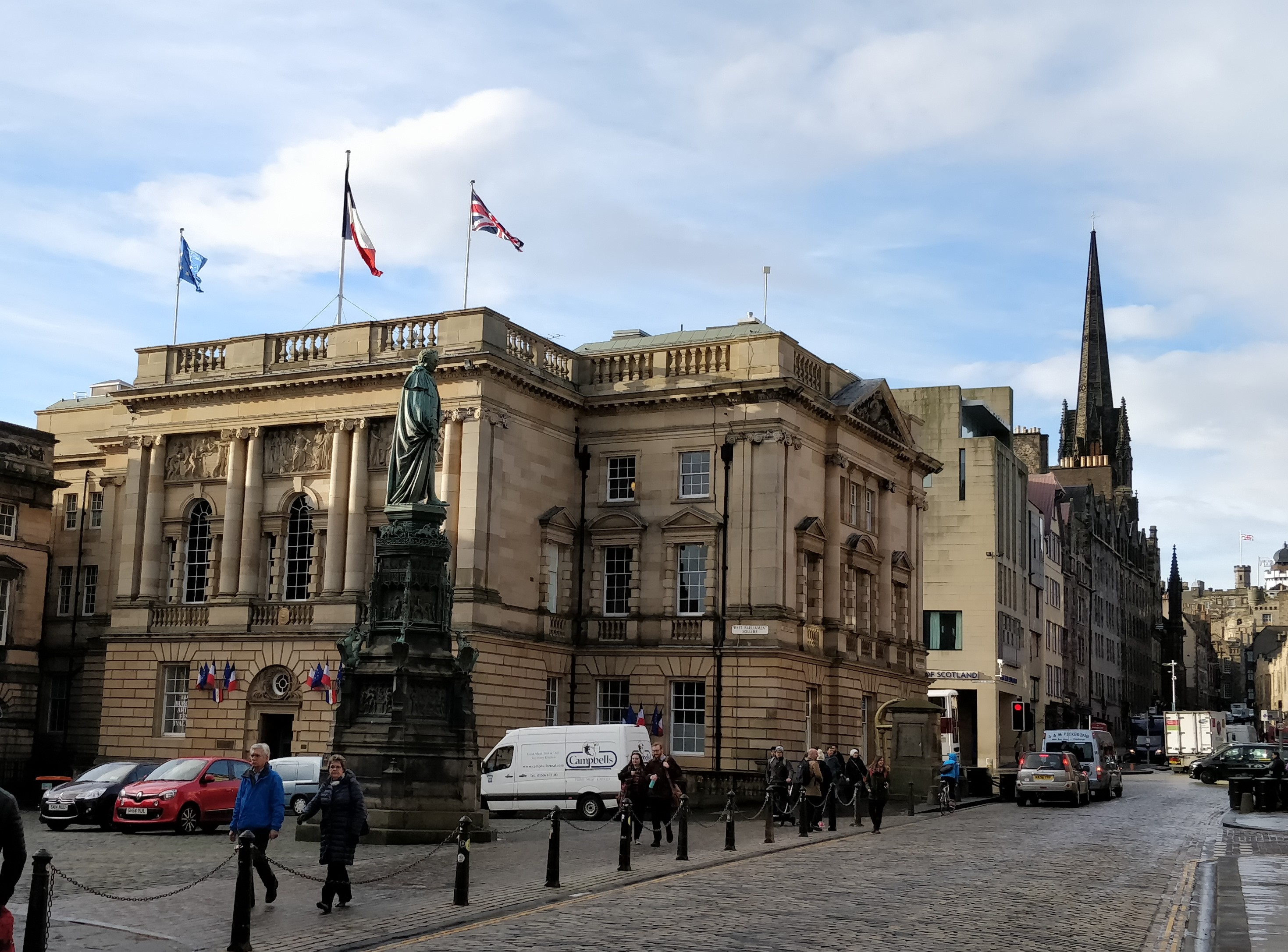 The consulate of the French Republic in Edinburgh, Scotland, UK.